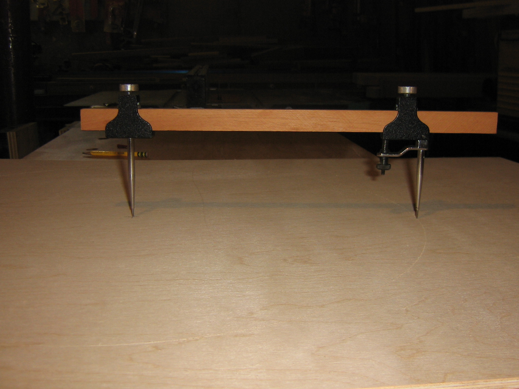 Trammel points connected by piece of Mahogany and scribed onto quarter inch birch plywood.